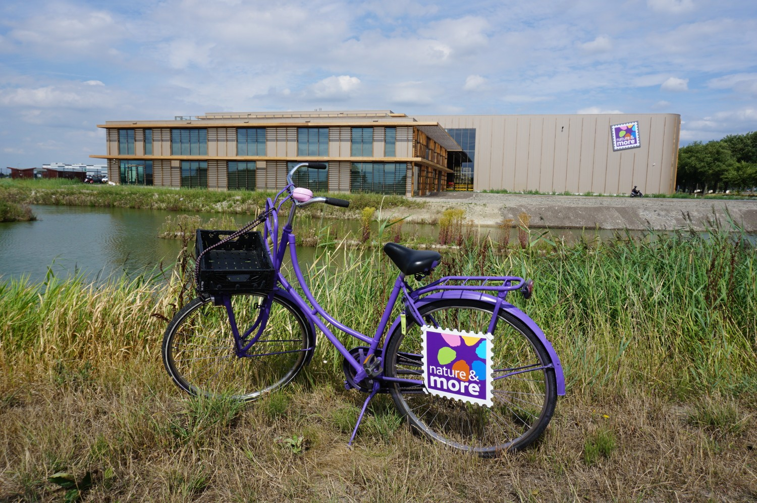 Head office of Eosta and its "trace & tell" brand Nature & More in Waddinxveen, near Rotterdam, Netherlands